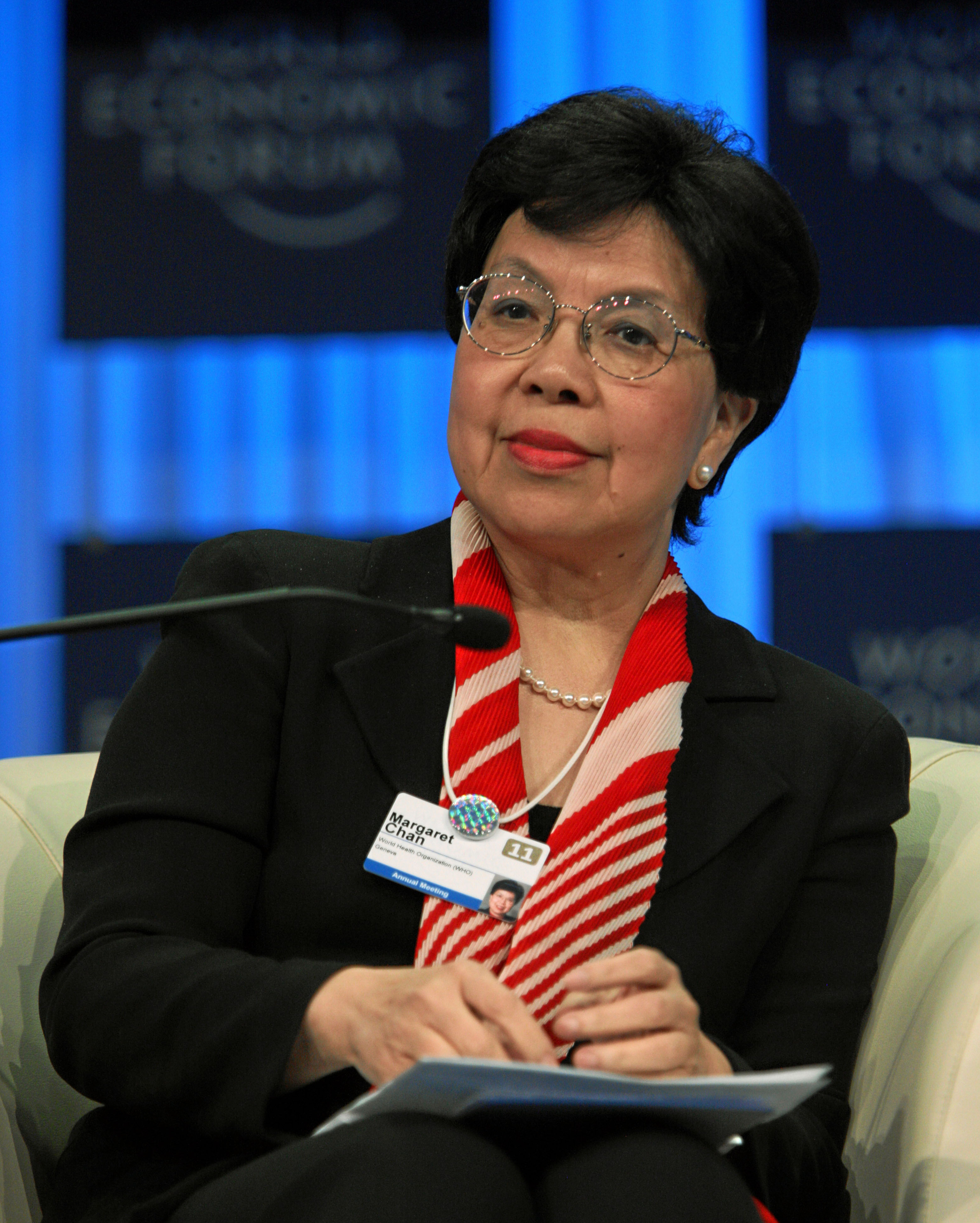 DAVOS/SWITZERLAND, 28JAN11 - Margaret Chan, Director-General, World Health Organization (WHO), Geneva, is captured during the session 'Raising Healthy Children' at the Annual Meeting 2011 of the World Economic Forum in Davos, Switzerland, January 28, 2011. Copyright by World Economic Forum by Remy Steinegger